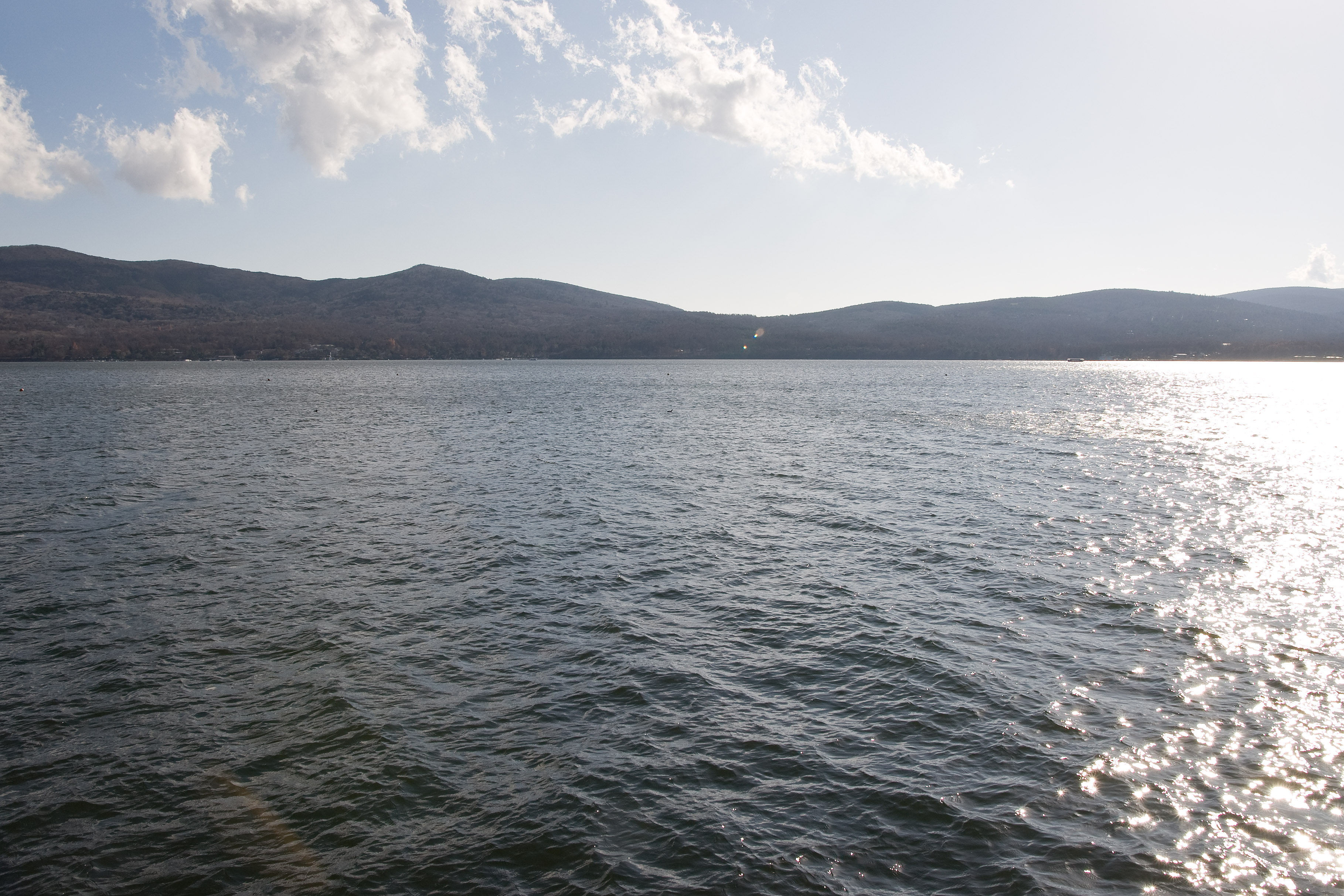 Kagosaka Pass and Lake Yamanaka, Yamanashi Pref., Japan.